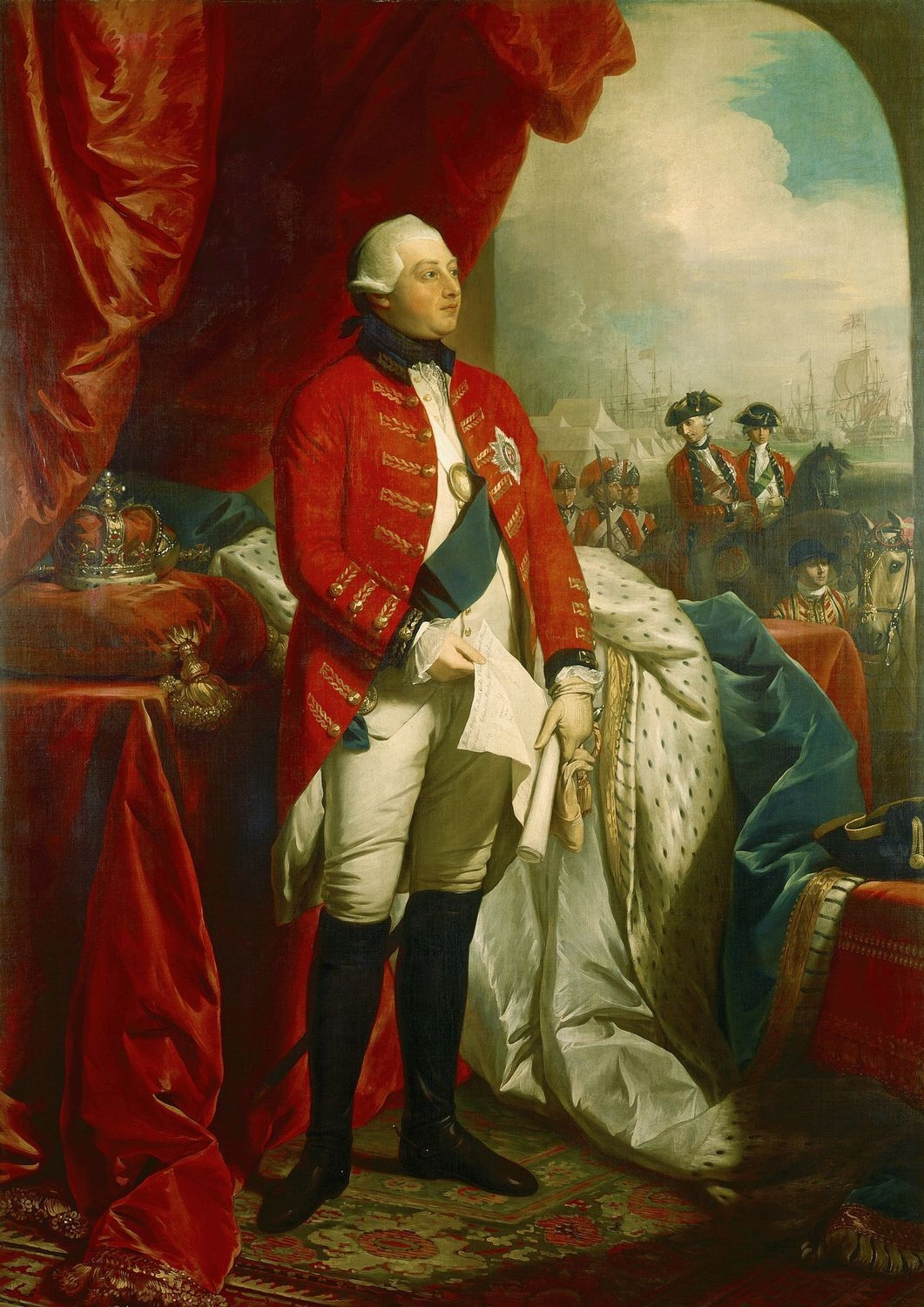 George III of the United Kingdom (1738-1820)